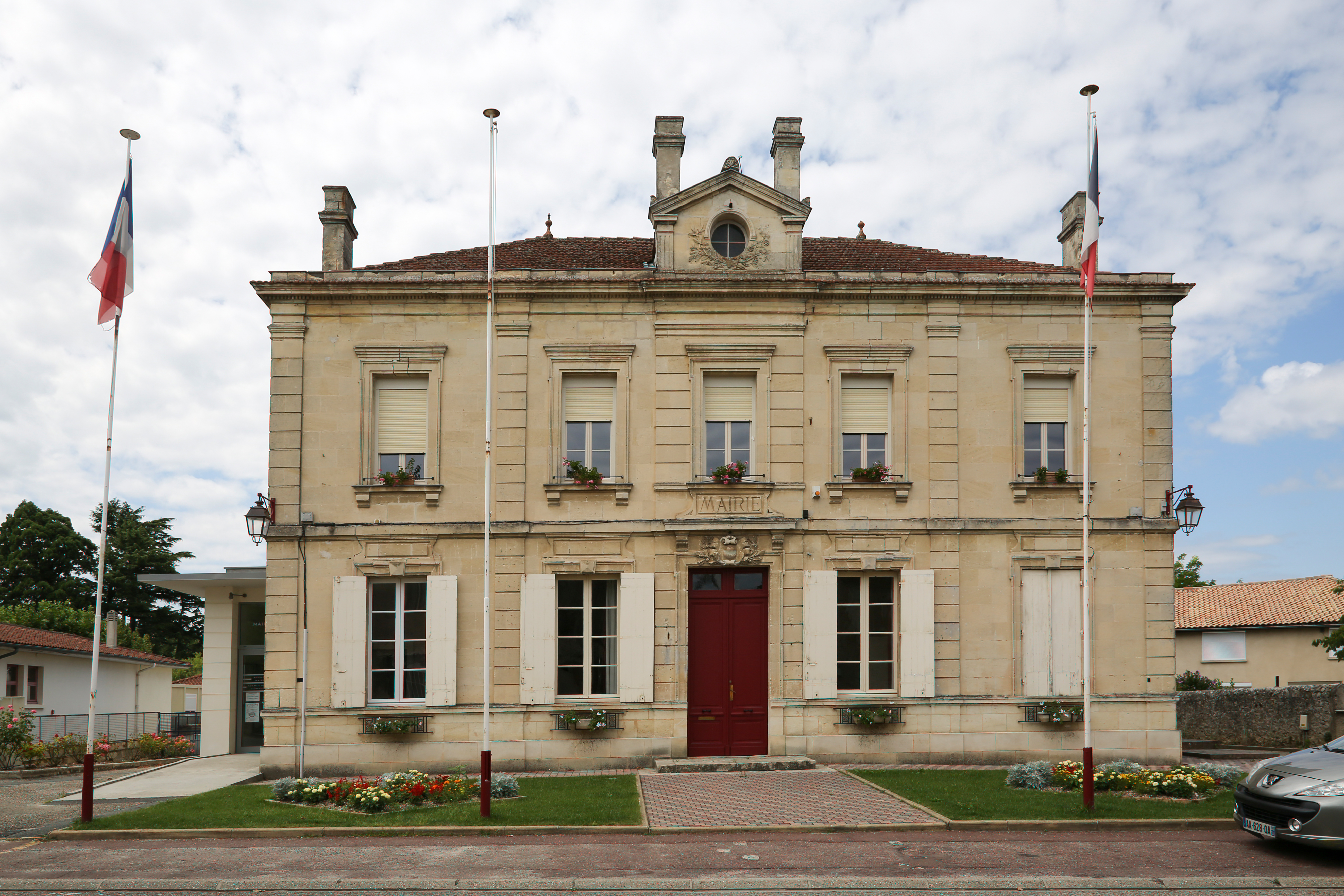 Quinsac Mairie